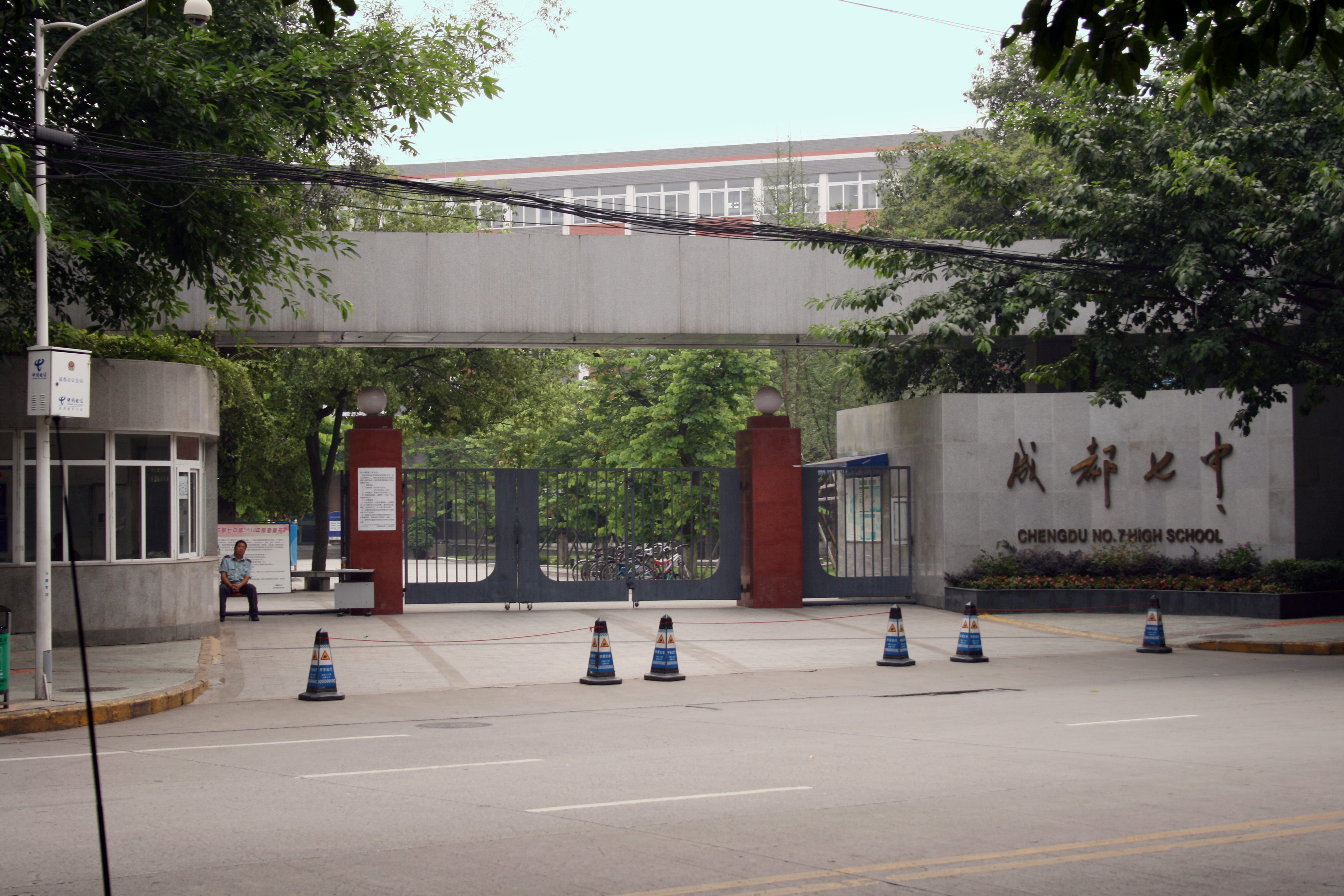 Chengdu No. 7 High School